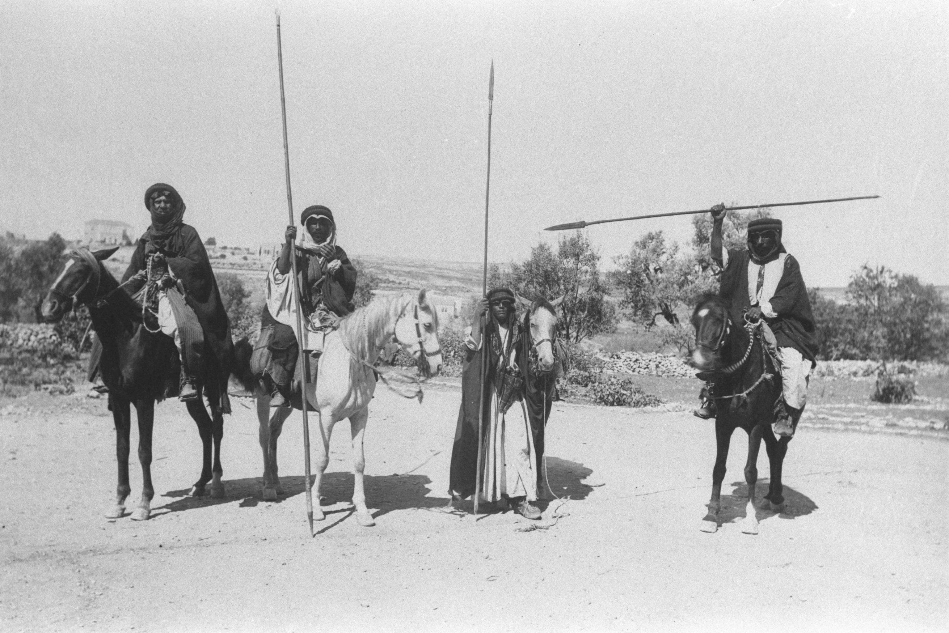 MOUNTED BEDUIN FIGHTERS ARMED WITH SPEARS POSE IN A PHOTO TAKEN IN THE JERUSALEM AREA DURING THE OTTOMAN ERA IN ERETZ YISRAEL. צילום לוחמים בדואים חמושים בחניתות על סוסיהם, בצילום שבוצע ליד איזור ירושלים, בתקופת השילטון העותומני בארץ ישראל.